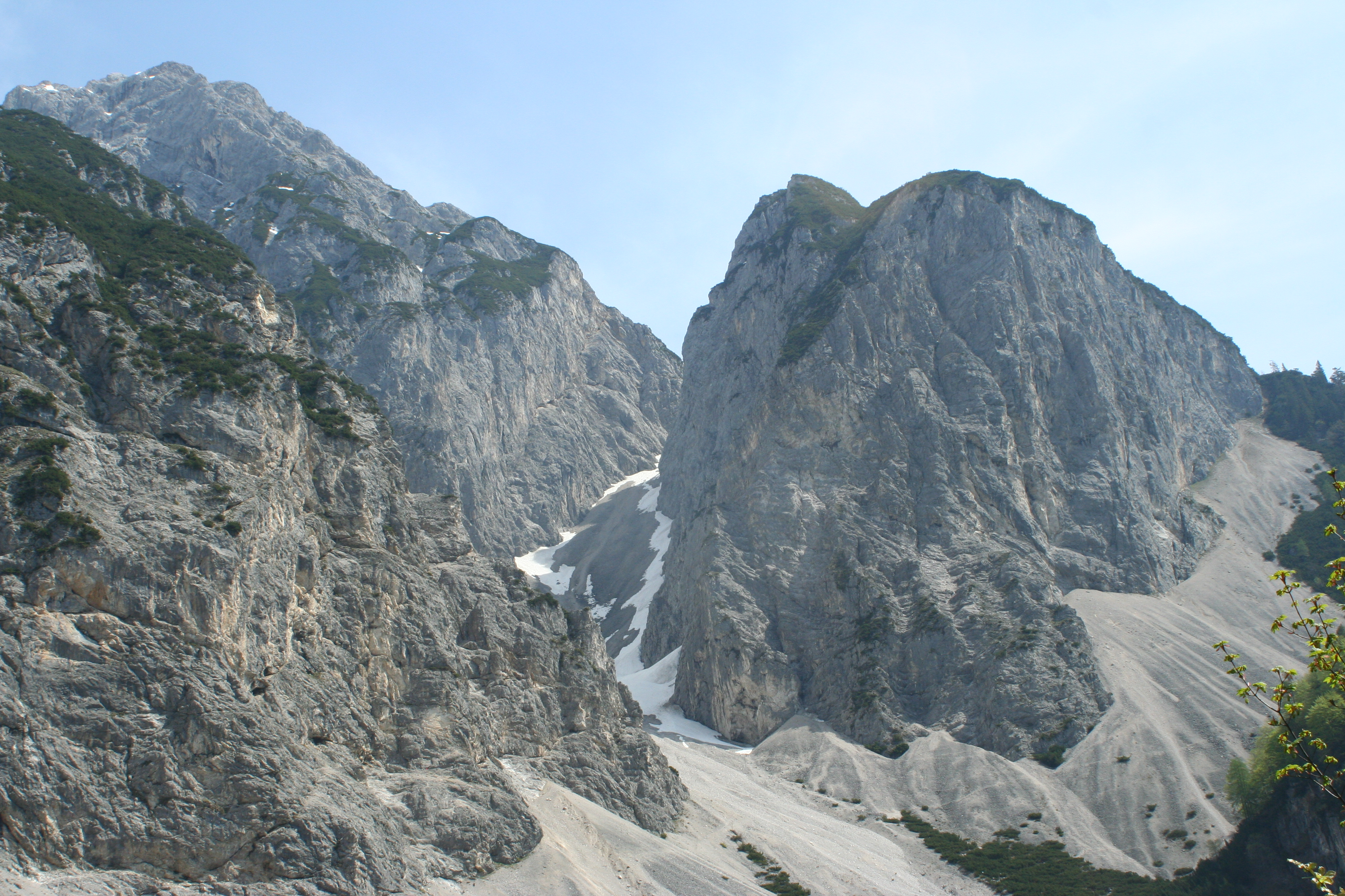 The Hüttenspitze or Halltaler Zunterkopf, 1858 m (right) in the Karwendel, Tyrol, Austria. On the left side the Große Wechselspitze, 2316 m, in the south ridge of the Bettelwurf, between the Wechselscharte 1760 m